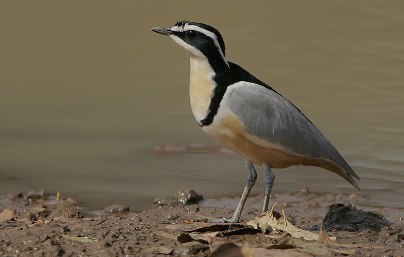 Image taken at Kaur wetlands. This fantastic wader is easier to see in The Gambia than anywhere else in its range. It is also called the Crocodile bird as it is alleged to pick scraps off the teeth of basking crocodiles.